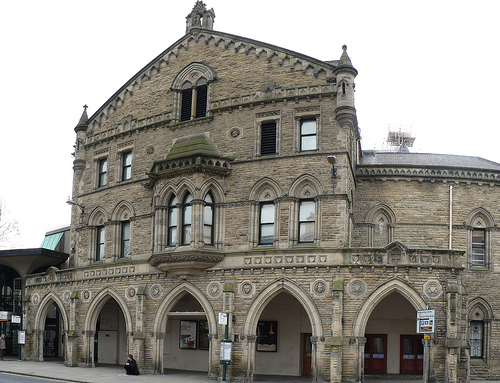 Theatre Royal, York, England